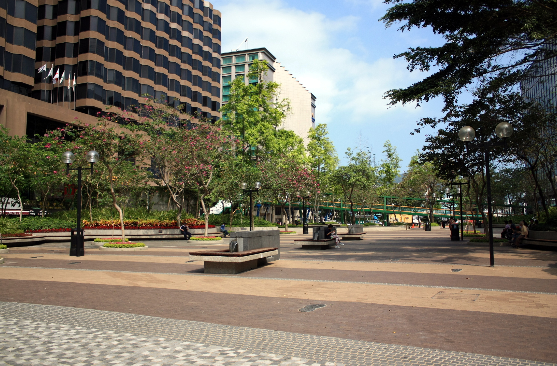 The Urban Council Centenary Garden Fountain 市政局百週年紀念花園